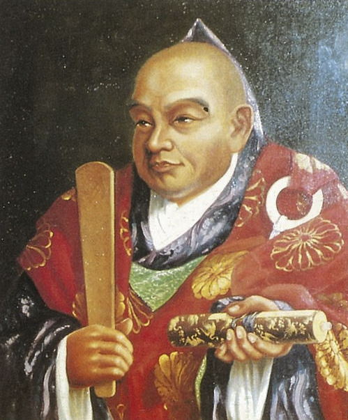 Nichiren Shonin, by Takahashi Yuichi, Myohoji, Suginami, Tokyo, Japan